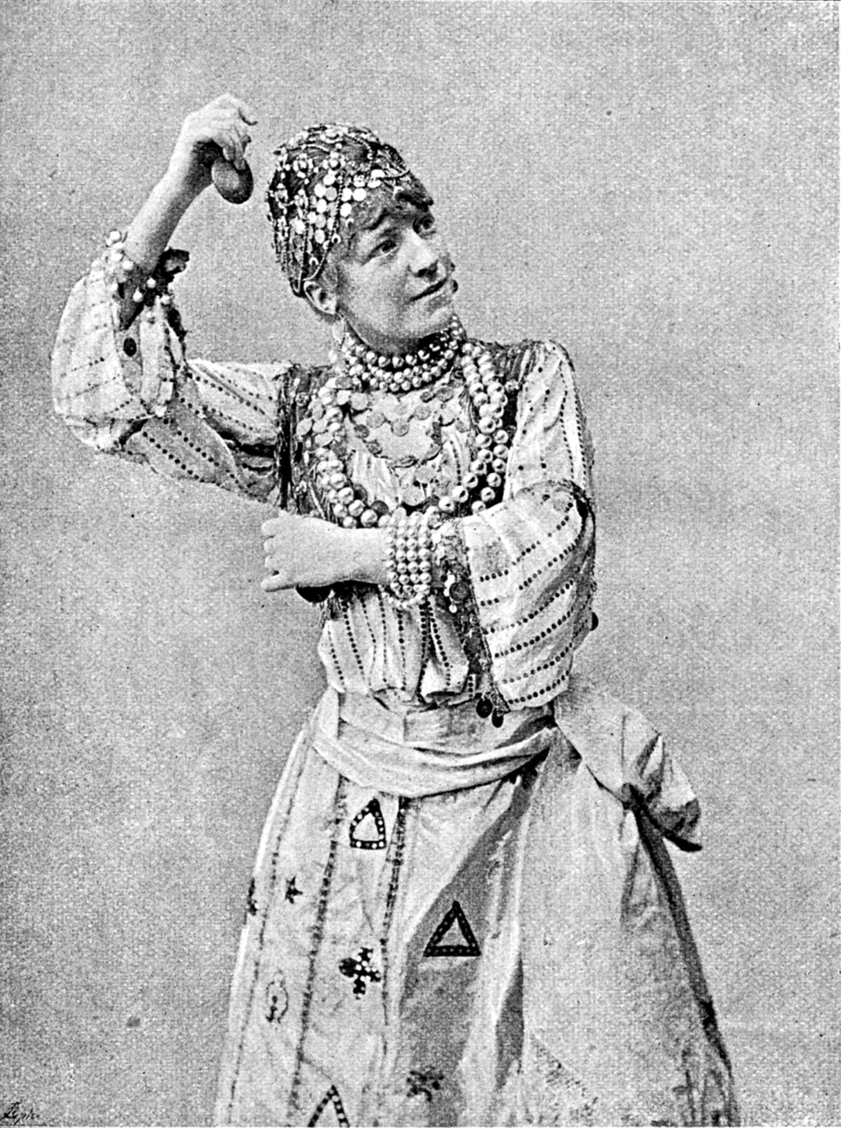 Portrait of Norwegian opera singer Gina Oselio (1858-1937) as "Carmen". Published 1891 in the journal Skilling-Magazin.